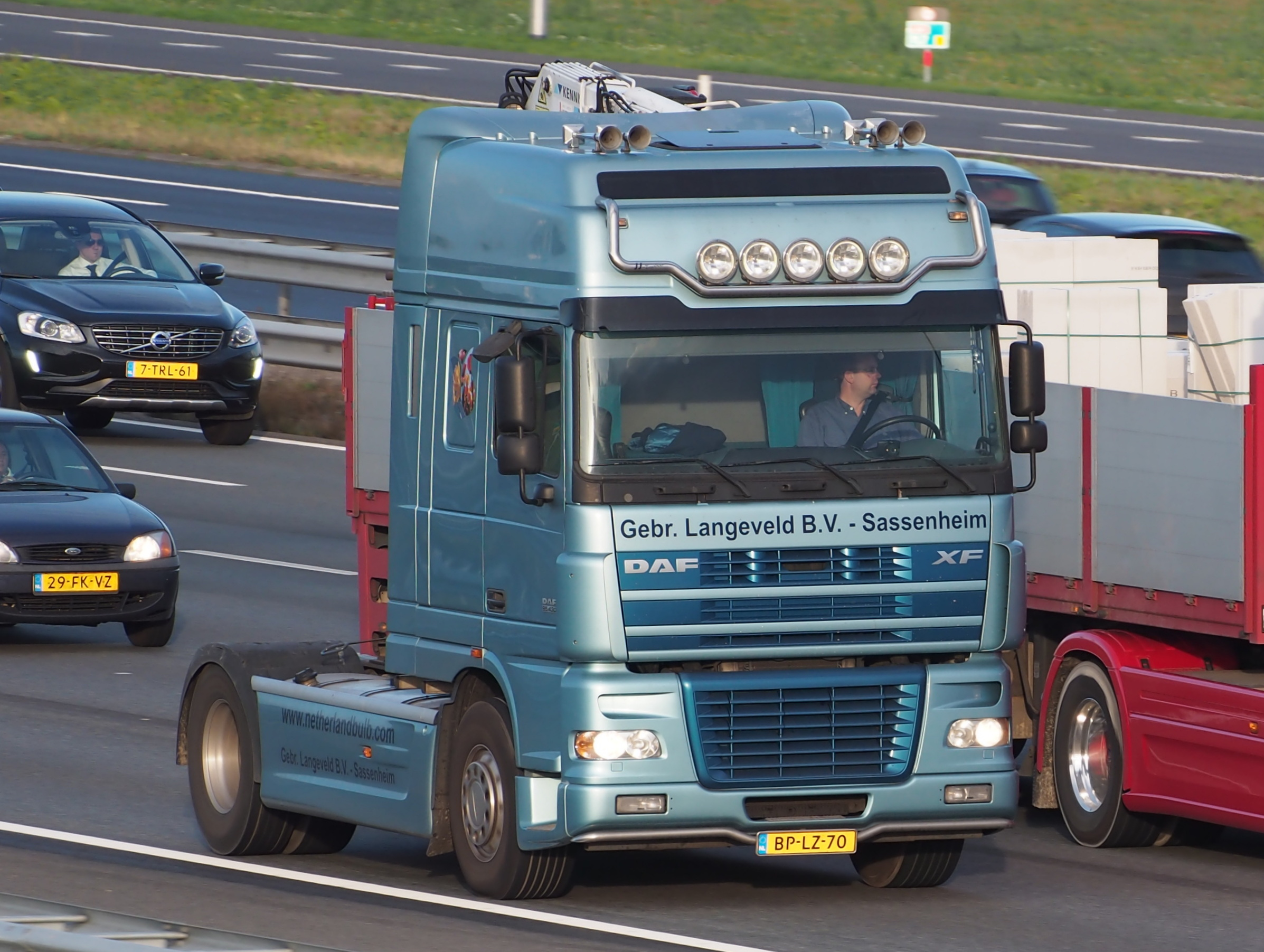 Photographed on the A4 motorway near Hoofddorp, The Netherlands.